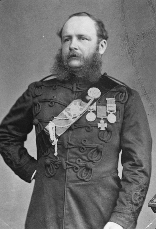 Victoria Cross Winners- Pre 1914 Portrait of Henry William Pitcher, awarded the Victoria Cross: North west India, 30 October/16 November 1863.